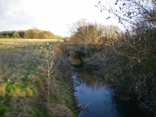 Bridge over the River Derwent at Foulbridge The river here is in two channels, presumably one is the original line and the other wider channel is man made. See other photo.